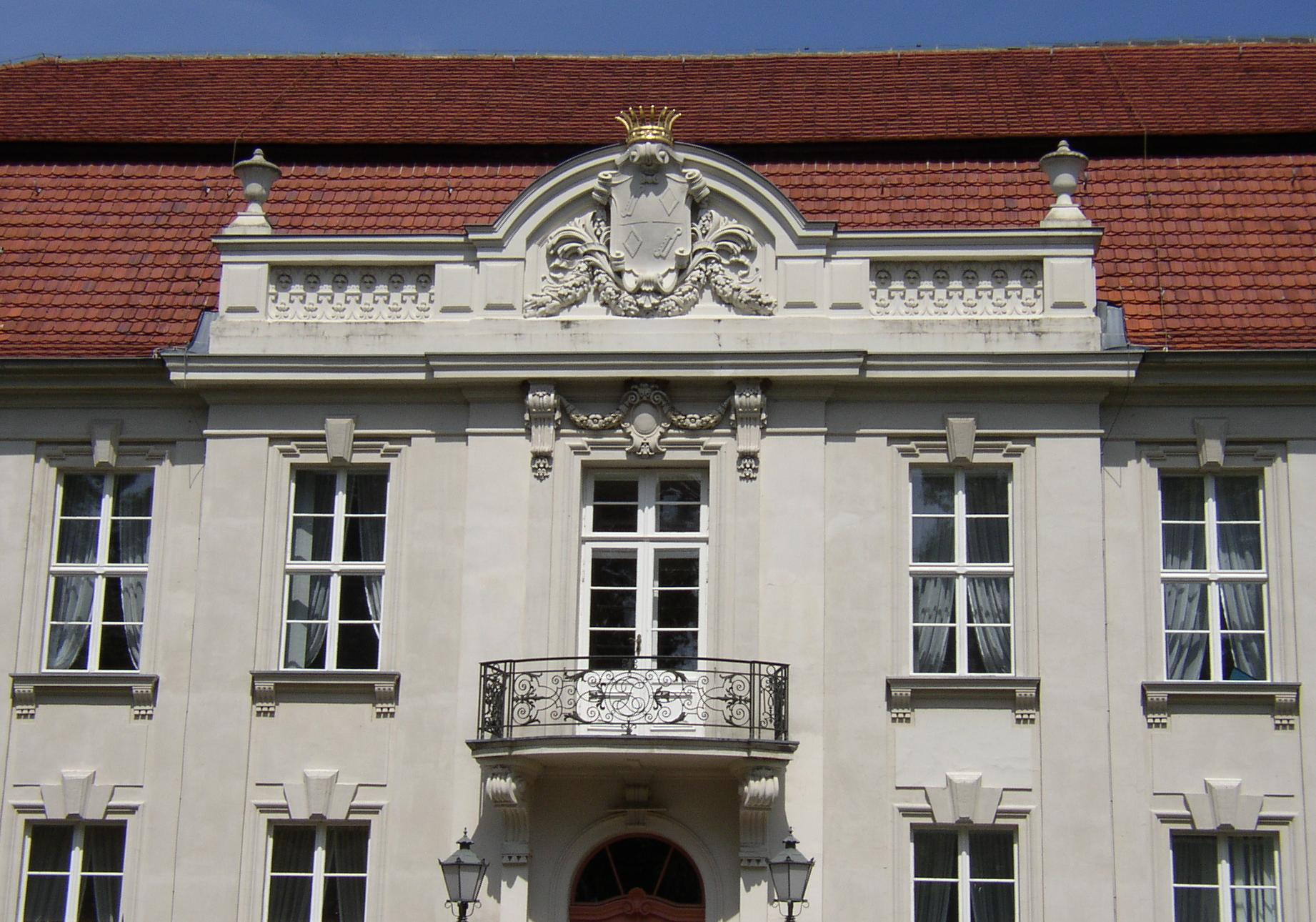 Manor house of the family von Zieten in Fehrbellin-Wustrau in Brandenburg, Germany